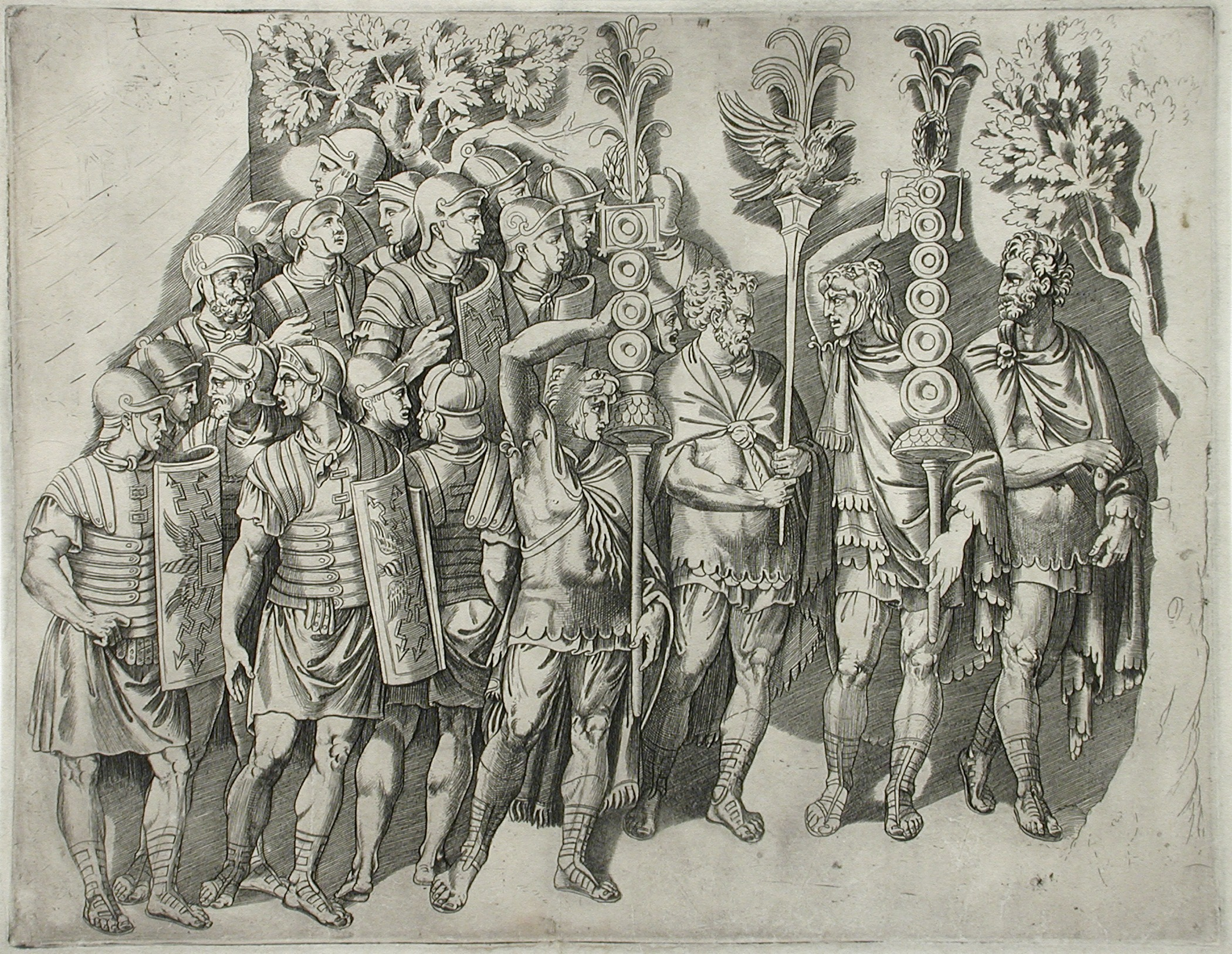 Italy, 1515-1527 Series: Trajan's Column Prints; engravings Engraving Sheet: 12 x 15 1/4 in. (30.48 x 38.74 cm) Mary Stansbury Ruiz Bequest (M.88.91.222) Prints and Drawings